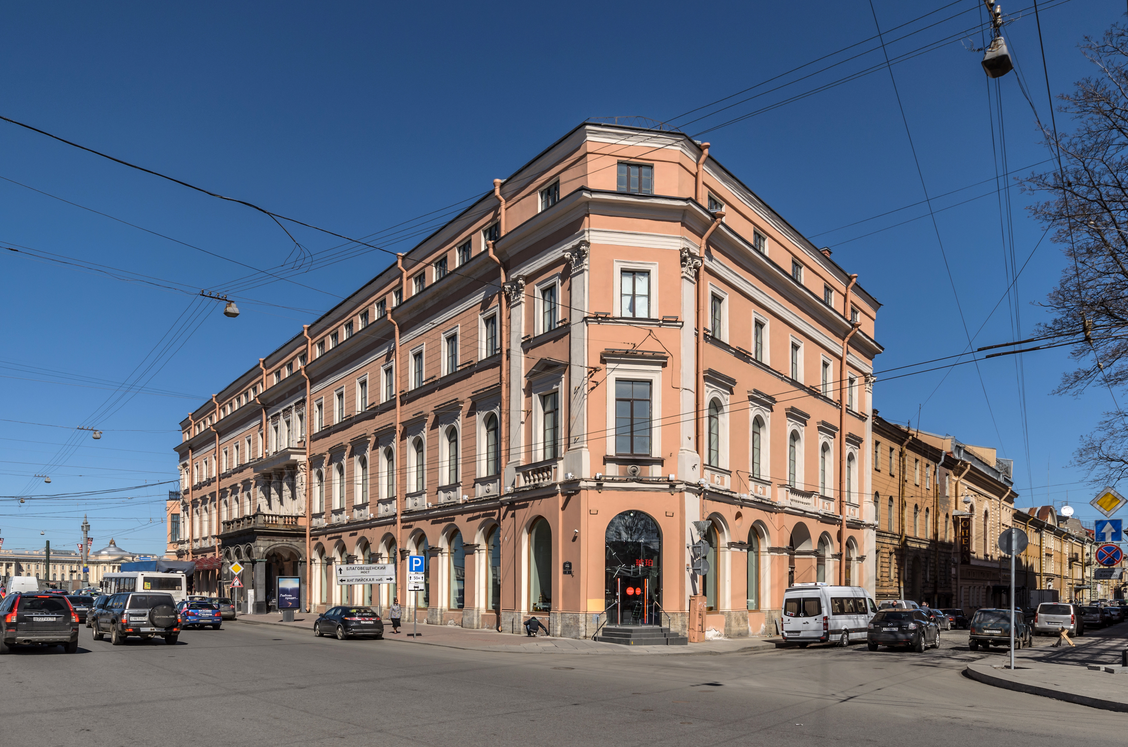 Vonlyarlyarsky's Apartment House in Saint Petersburg